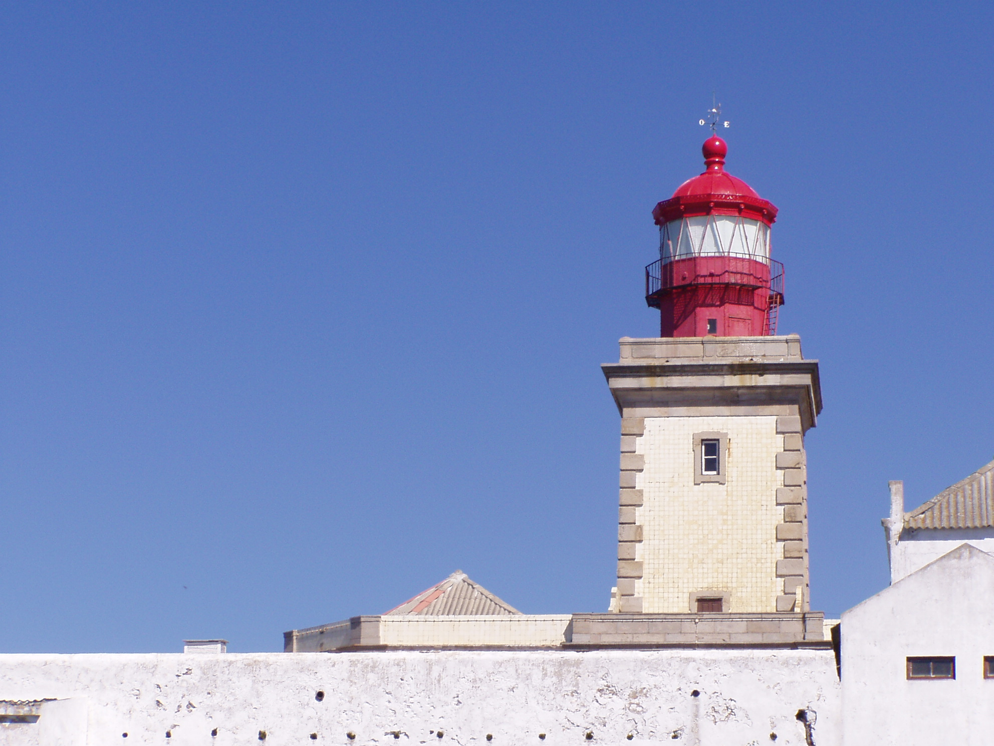 Lighthouse at Cabo da Roca, the westernmost point in continental Europe, near Sintra, Portugal.